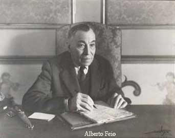 Alberto Feio, chief librarian of the Biblioteca Pública de Braga, Portugal, after 1911